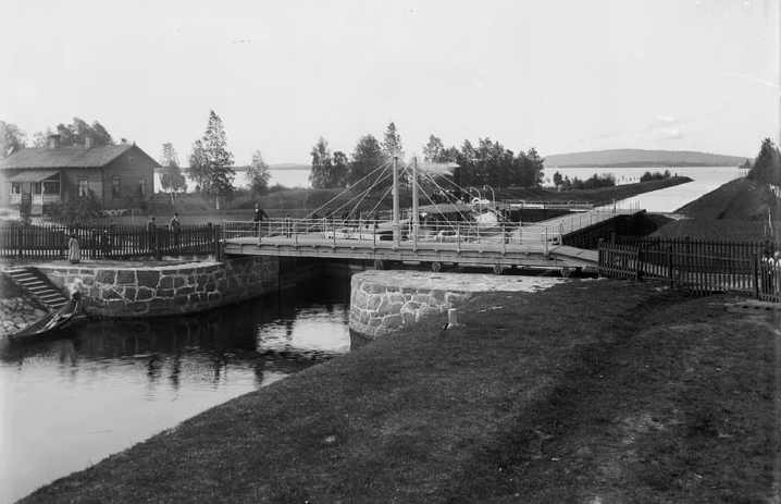 Nerkoo Canal in Lapinlahti, Finland.